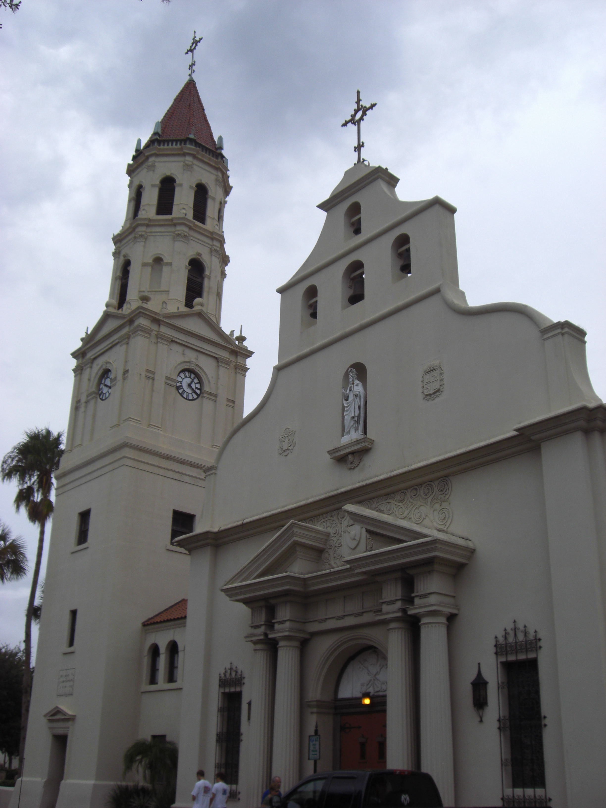 St. Augustine Cathedral, St. Augustine, Florida, USA